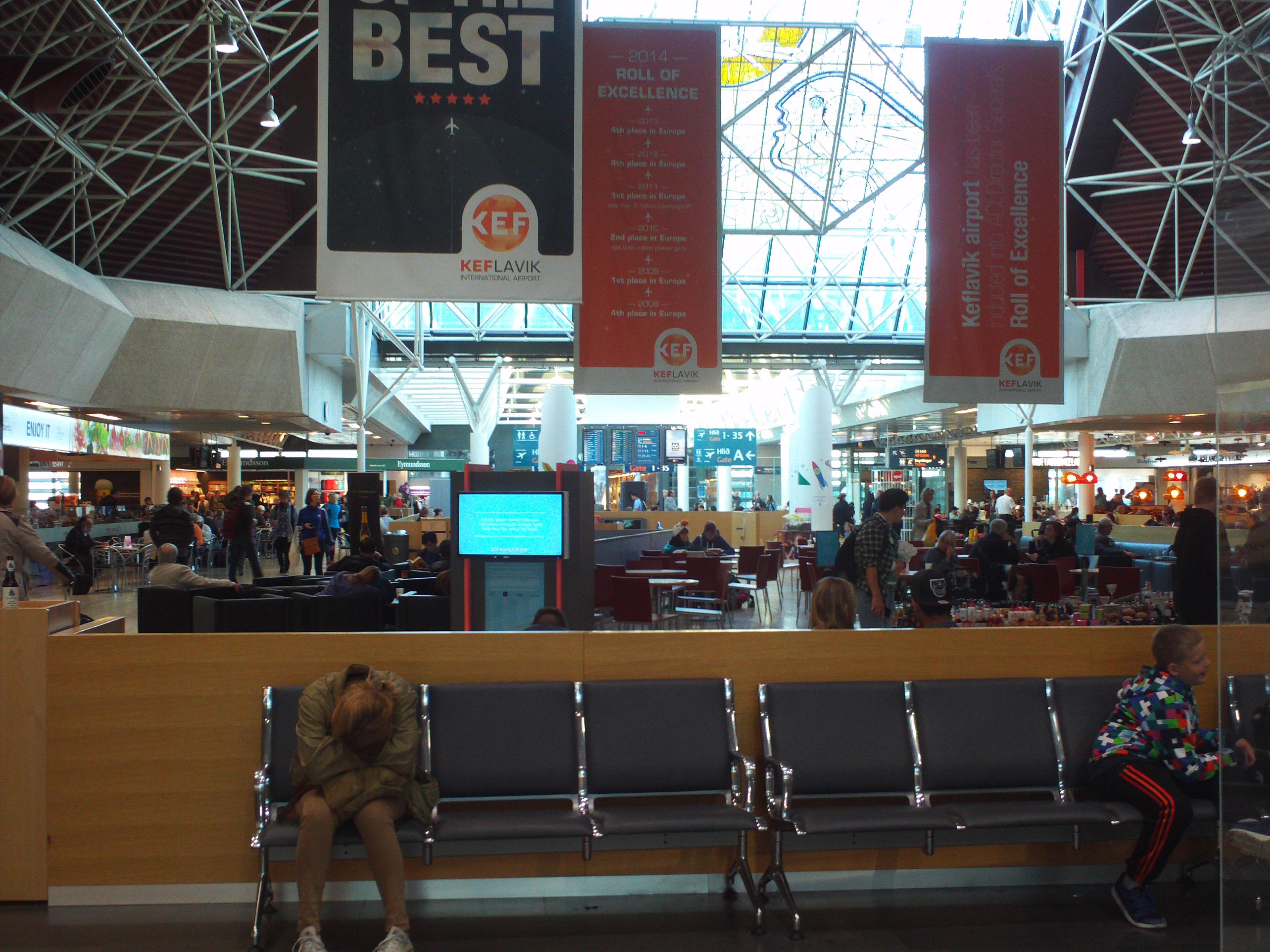 Airside.